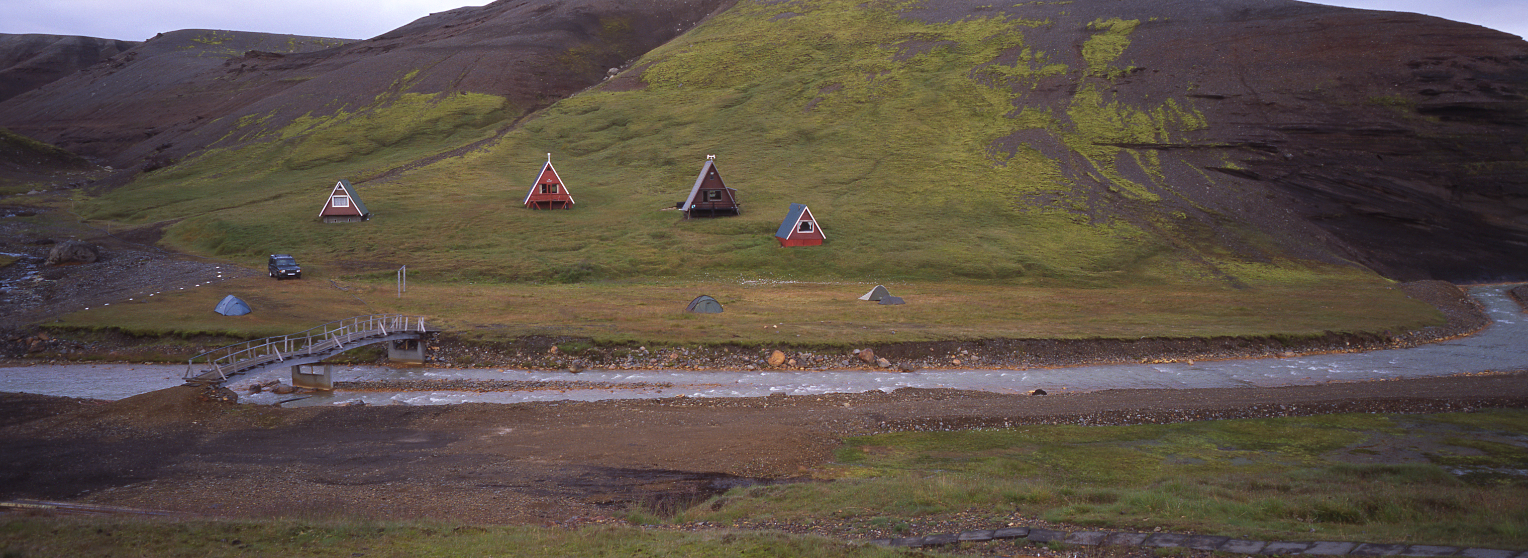 The following is the author's description of the photograph quoted directly from the photograph's Flickr page."Kerlingarfjöll, iceland "